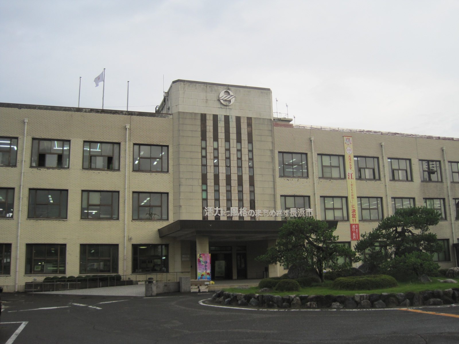 Nagahama City Hall(Nagahama city, Shiga prefecture)